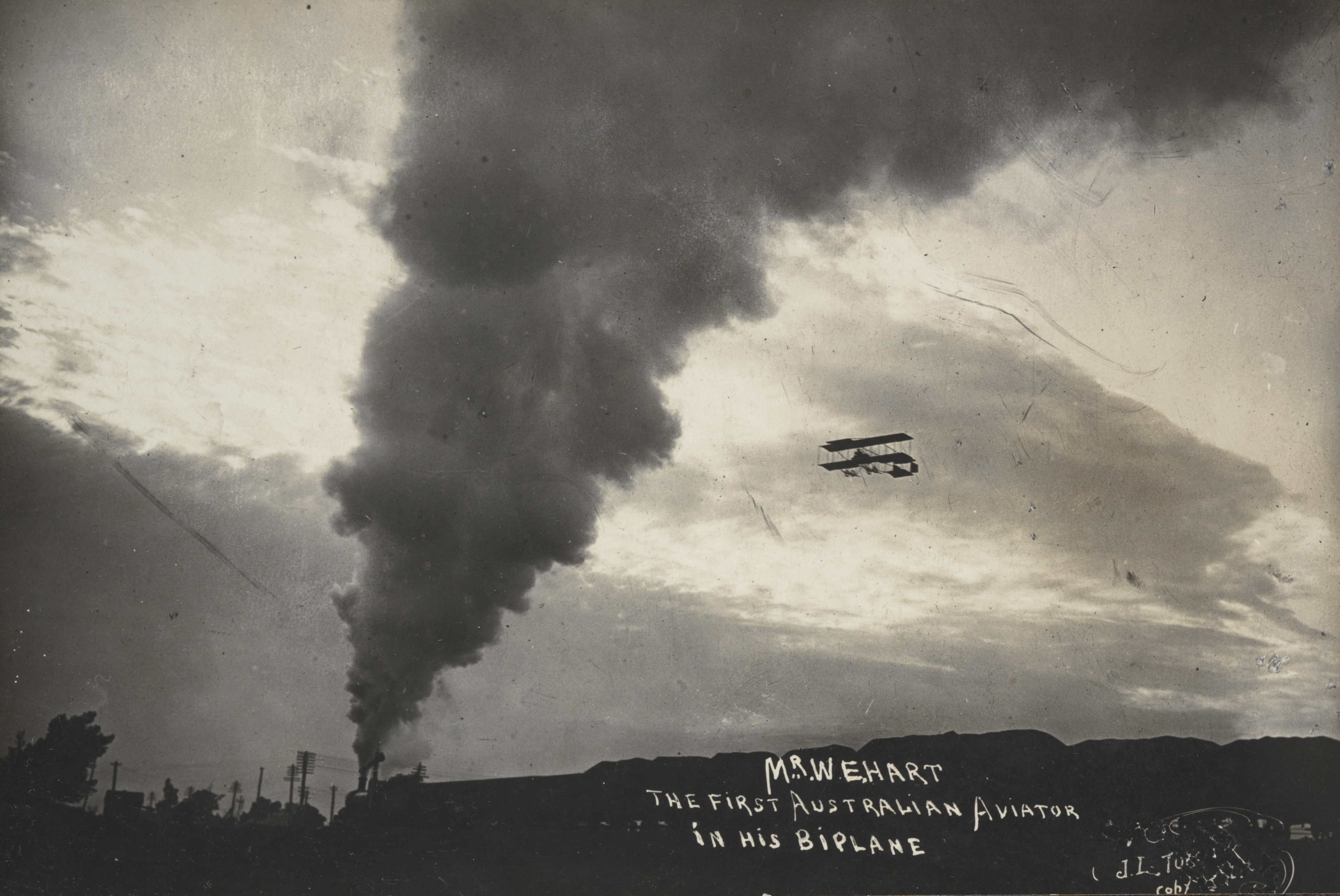 William Ewart Hart in his Bristol Boxkite Biplane. 1912. (State Library of New South Wales, Call Number PXA 1063 / 276)